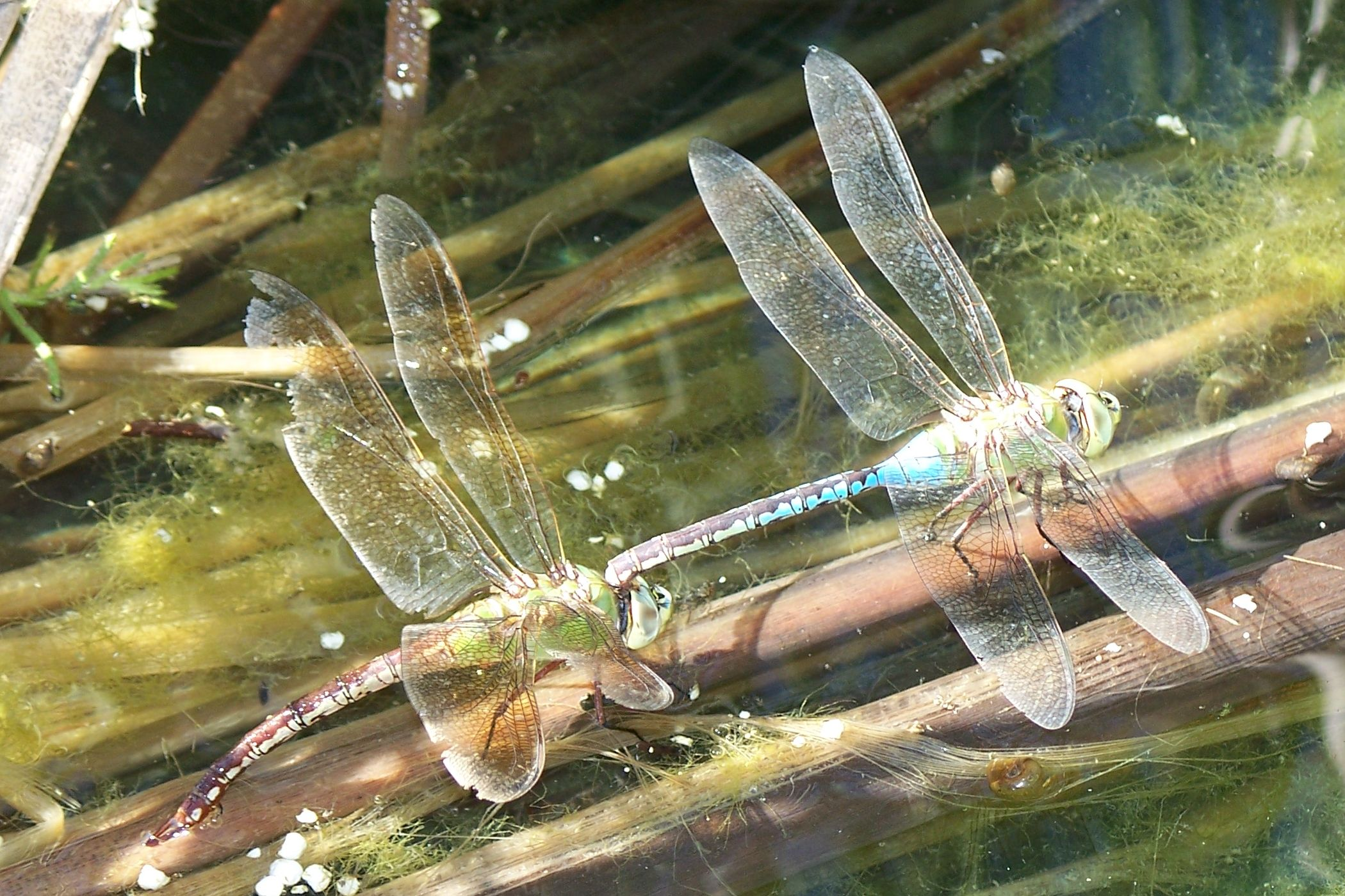 Common Green Darner. Laying eggs